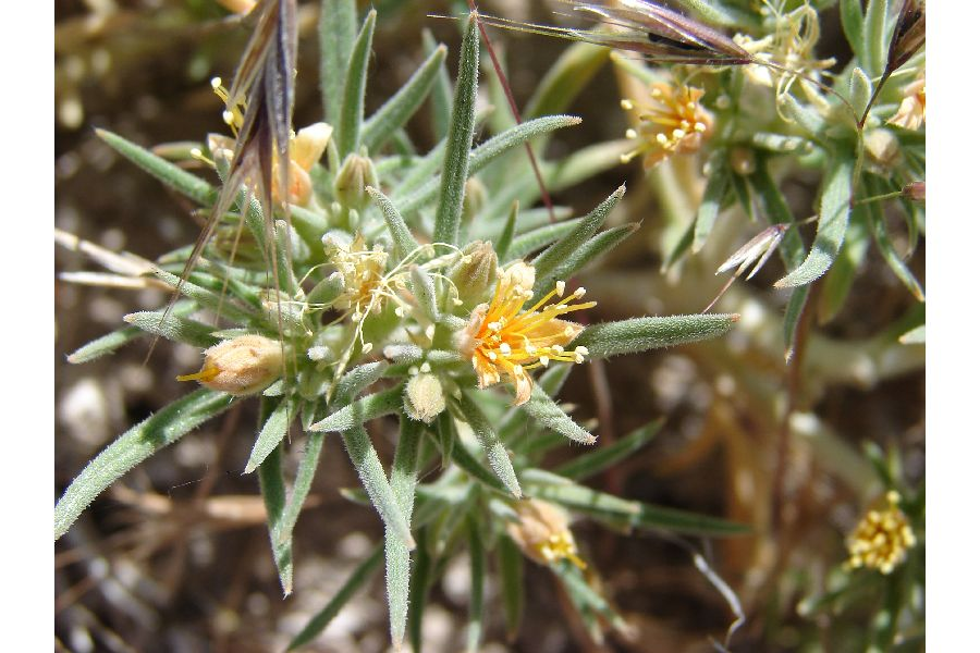 Mentzelia torreyi In the Bureau of Land Management Jarbidge Resource Area, Idaho. from Sheri Hagwood. Bureau of Land Management. United States, ID, Bureau of Land Management Jarbidge Resource Area. June 5, 2006.